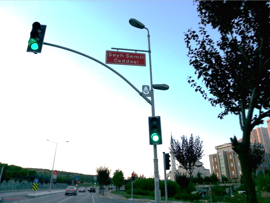 street named after Imam Shamil in Istanbul